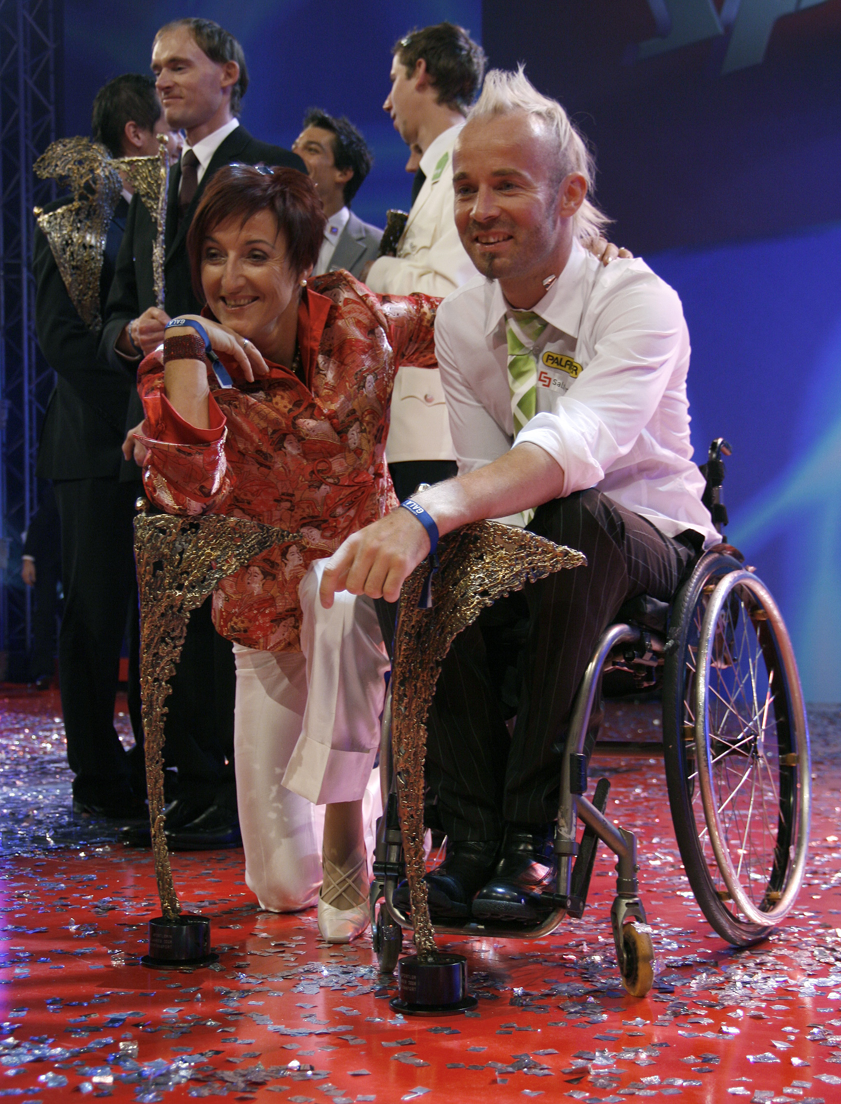 Andrea Scherney, Thomas Geierspichler and Christian Kornhauser, Austrian Austrian Sportspersonalities of the year 2008.